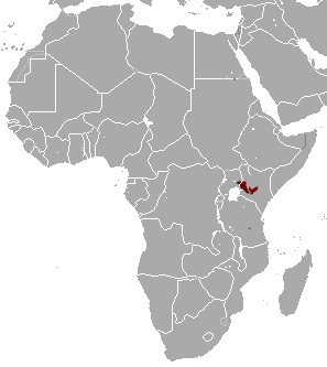 Jackson's Mongoose (Bdeogale jacksoni) range